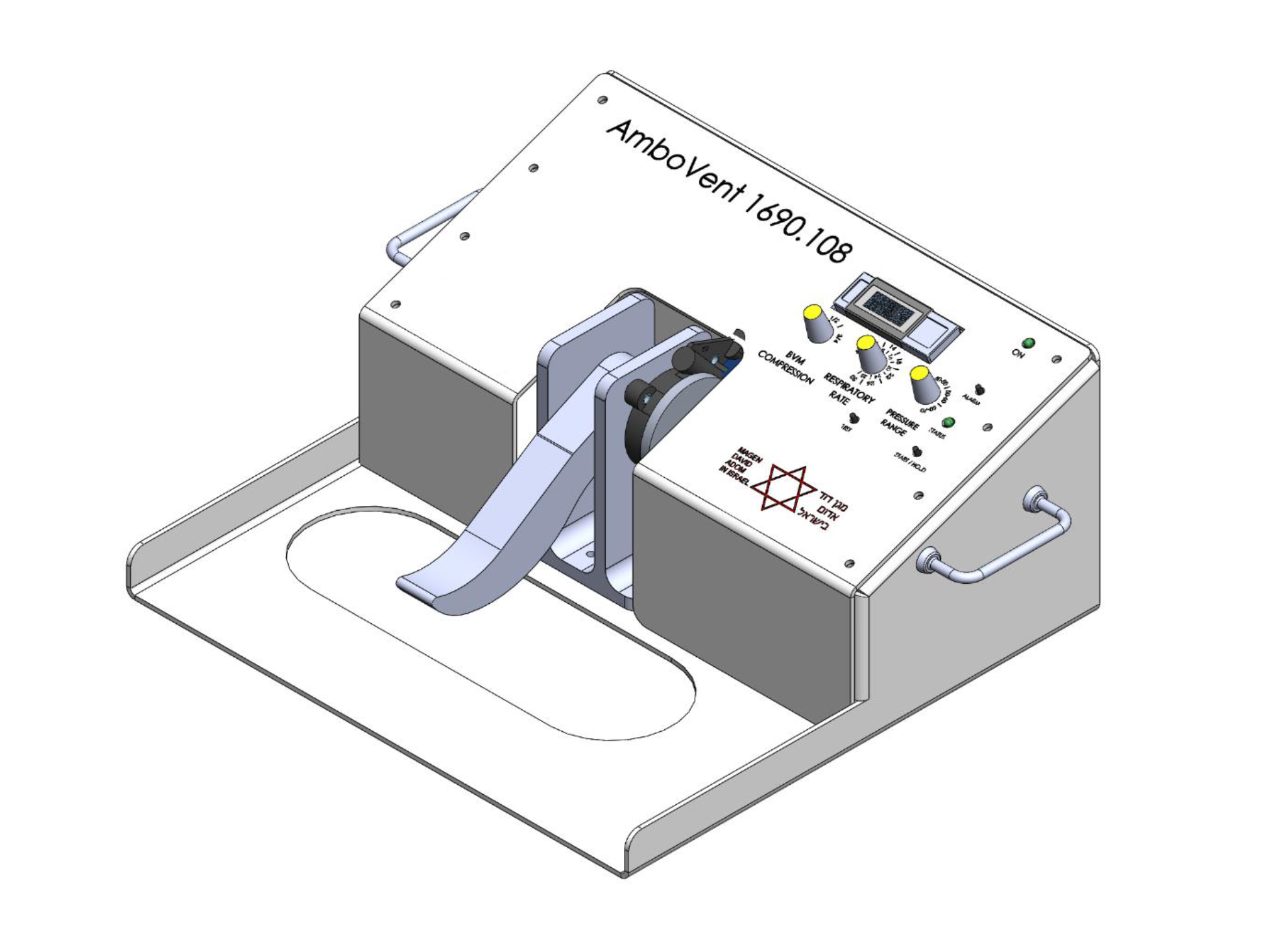 AmboVent - Packaging